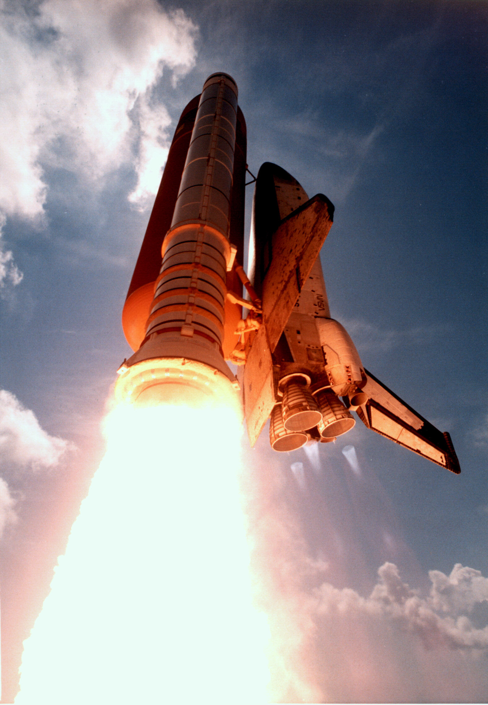 Kennedy Space Centre, Florida - Space Shuttle Columbia during the launch of STS-78.